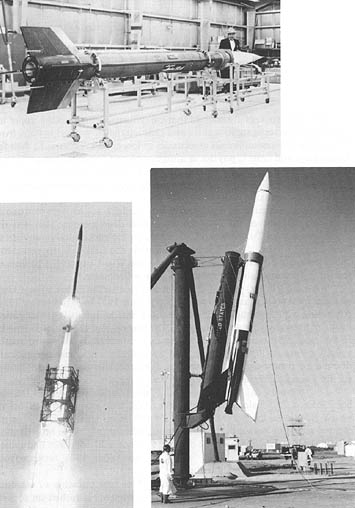 Aerobee 150A, top, in assembly area. At left below, Aerobee 350 launched on its first full flight test, 18 June 1965. At right below, Astrobee 1500 erected for its first flight test, 21 October 1964. Development of the Aerobee liquid-propellant sounding rocket was begun in 1946 by the Aerojet Engineering Corporation (later Aerojet-General Corporation) under contract to the U.S. Navy. The Applied Physics Laboratory (APL) of Johns Hopkins University was assigned technical direction of the project. James A. Van Allen, then Director of the project at APL, proposed the name "Aerobee." He took the "Aero" from Aerojet Engineering and the "bee" from Bumblebee, the name of the overall project to develop naval rockets1 that APL was monitoring for the Navy. The 18-kilonewton-thrust, two-stage Aerobee was designed to carry a 68-kilogram payload to a 130-kilometer altitude. In 1952, at the request of the Air Force and the Navy, Aerojet undertook design and development of the Aerobee-Hi, a high-performance version of the Aerobee designed expressly for research in the upper atmosphere.2 An improved Aerobee-Hi became the Aerobee 150. The uprated Aerobee 150 was named "Astrobee." Aerojet used the prefix "Aero" to designate liquid-propellant sounding rockets and "Astro" for its solid-fueled rockets.